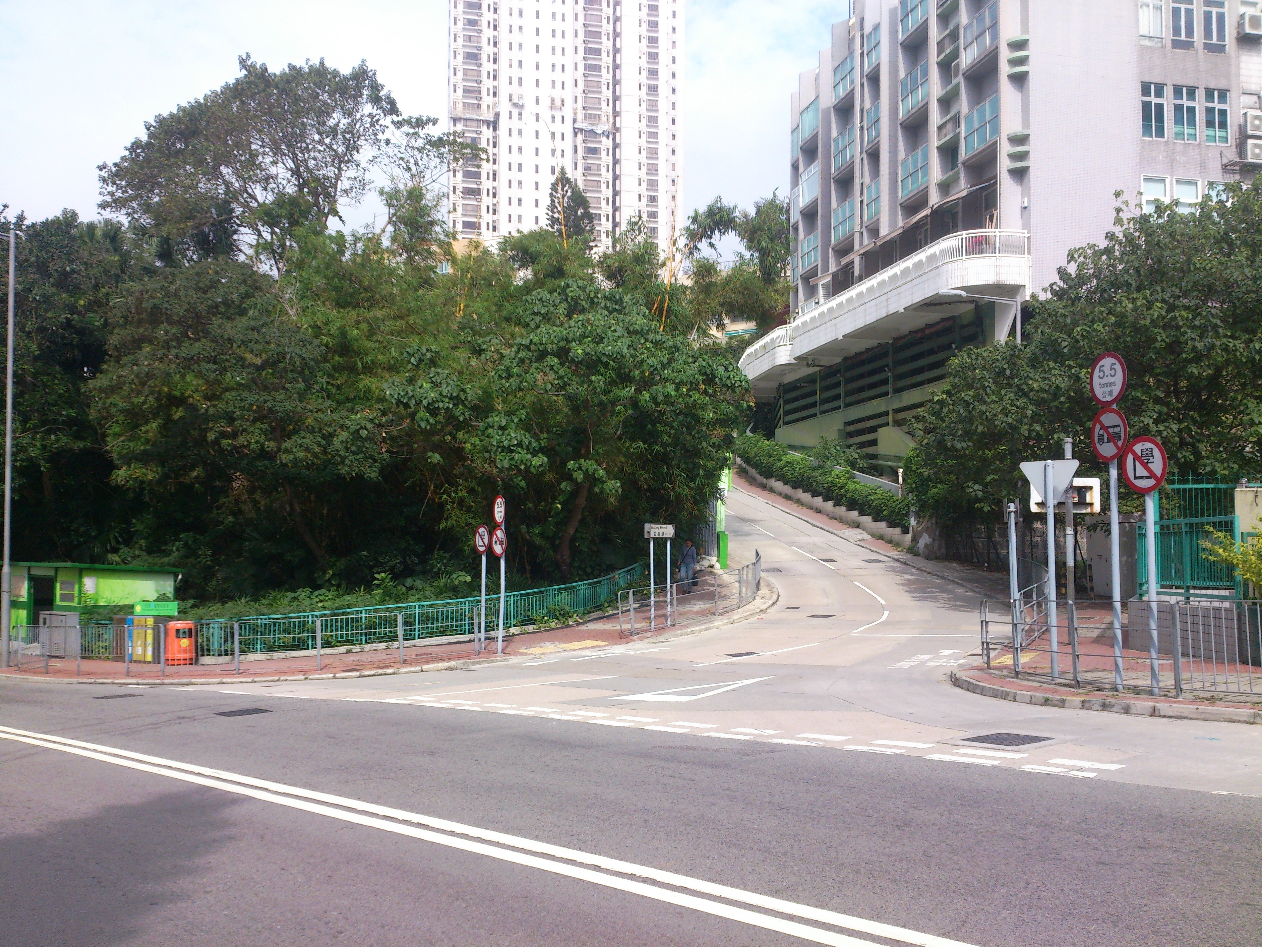 Victoria Road near Bisney Road